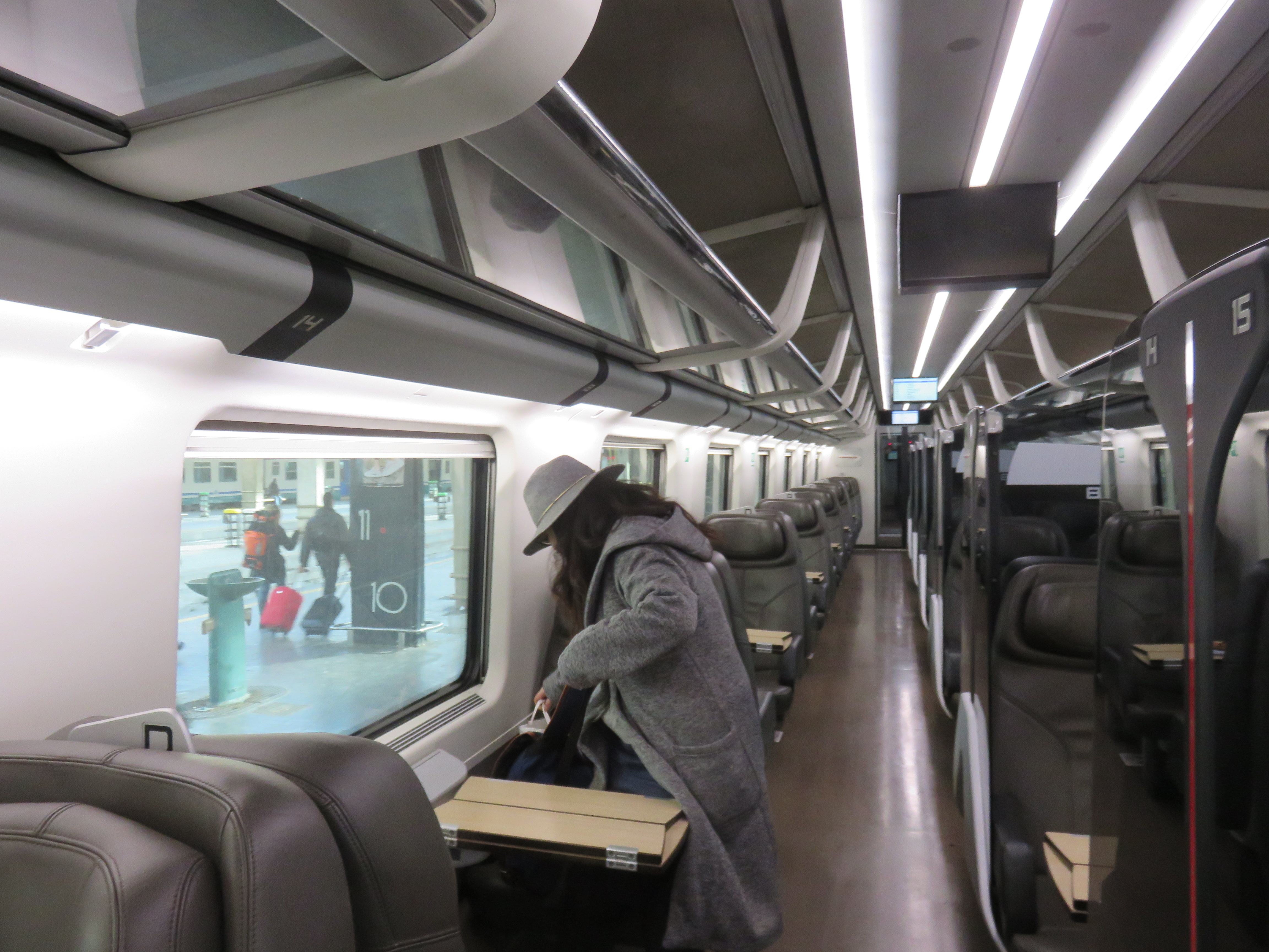 ETR 500 Frecciarossa's interior